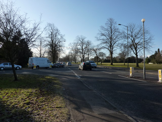 On Westbury Road, Bristol Walking towards Durdham Down